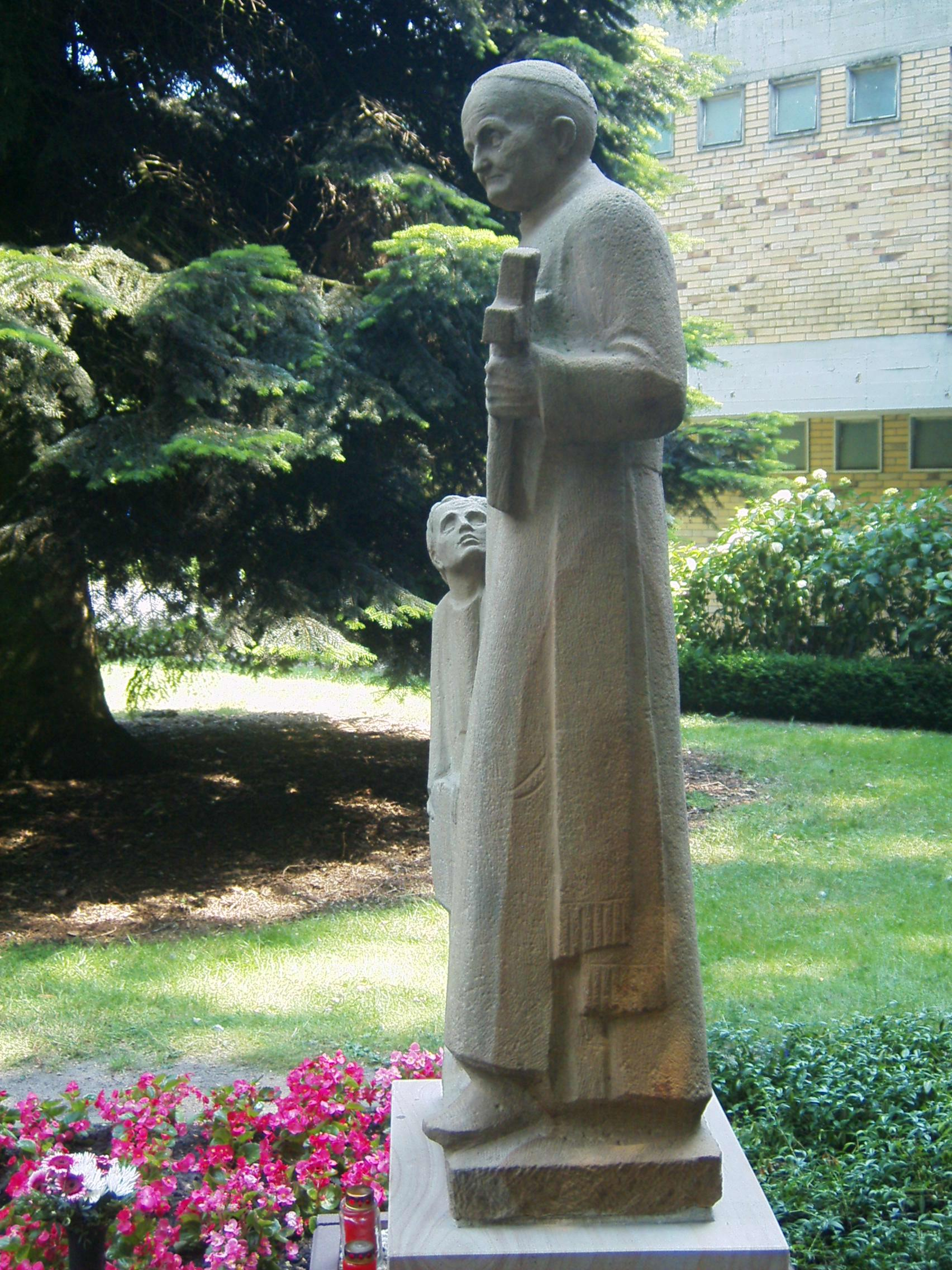 Statue of Arnold Janssen, monastery St. Arnold in district of Steinfurt, Germany, statue made by Joseph Krautwald.